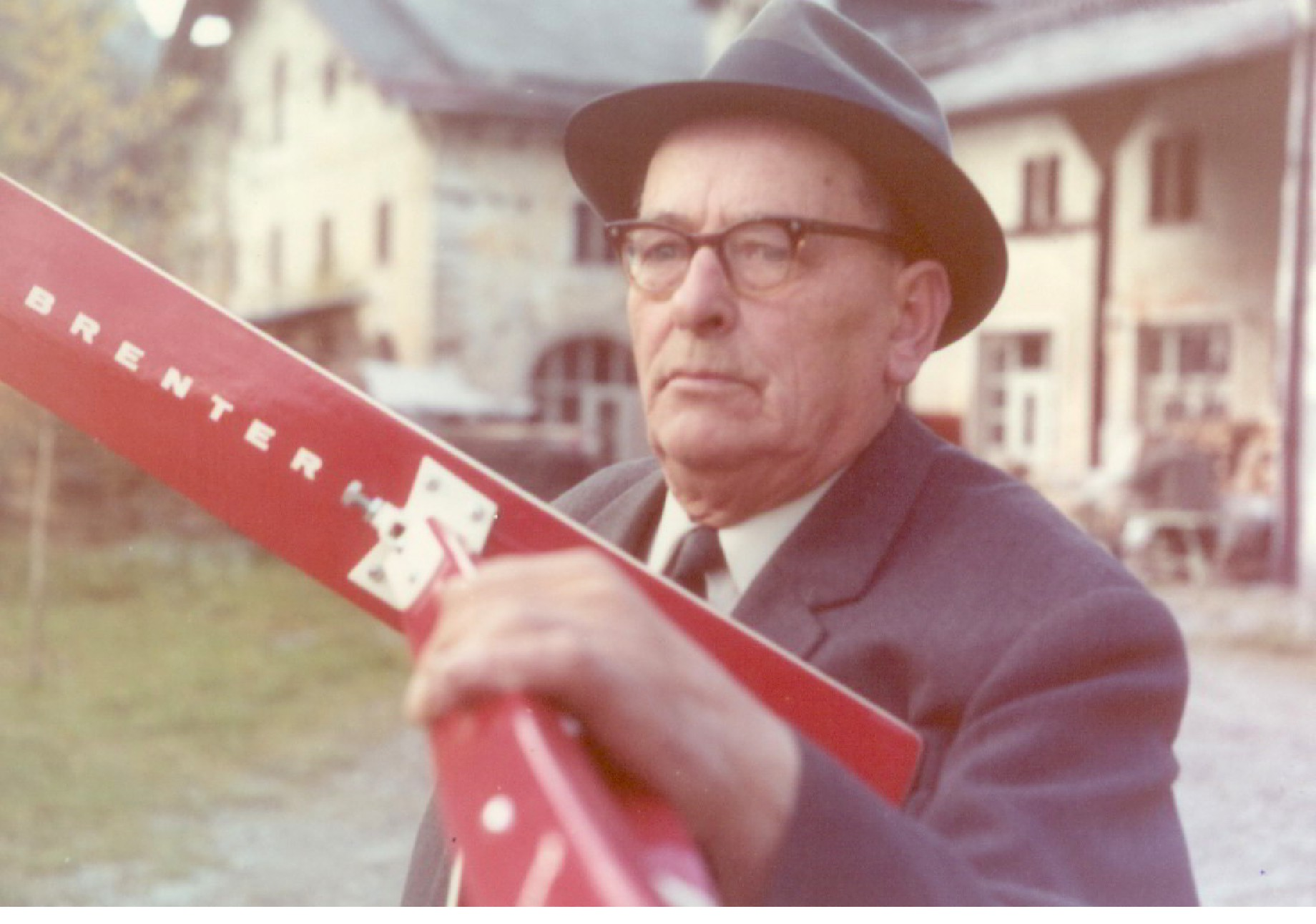 SITSKI (Skibob, Skibike, Snowbike) Inventor Engelber BRENTER